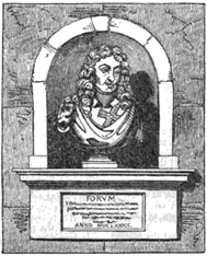 Drawing of bust of Sir Edward Hungerford (d.1711) formerly in Hungerford Market. Published in Gentleman's Magazine, 1832, part 2, p.113. Inscription: Forum utilitate publicae per quem necessarium Regia Caroli (Secun)di annuente Majestatae propriis sumptibus erexit perfecitq(ue) D(ominus) Edoardus Hungerford Balnei Miles anno MDCLXXXII ("This market for the use of the public with the royal consent of His Majesty Charles the Second, Lord Edward Hungerford, Knight of the Bath, erected and completed at his own expense in the year 1682")